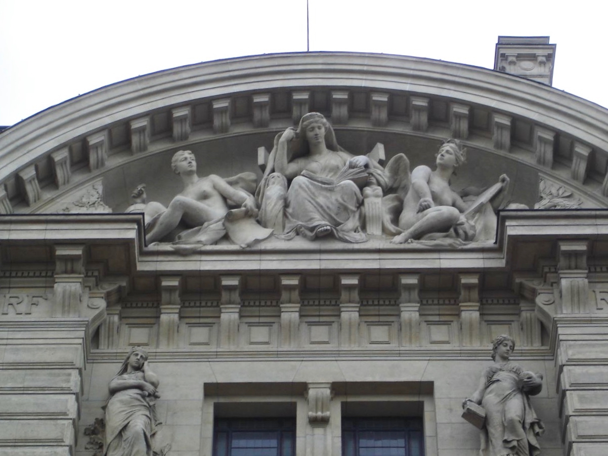 Sculpture on the front of the Sorbonne, Rue des Écoles